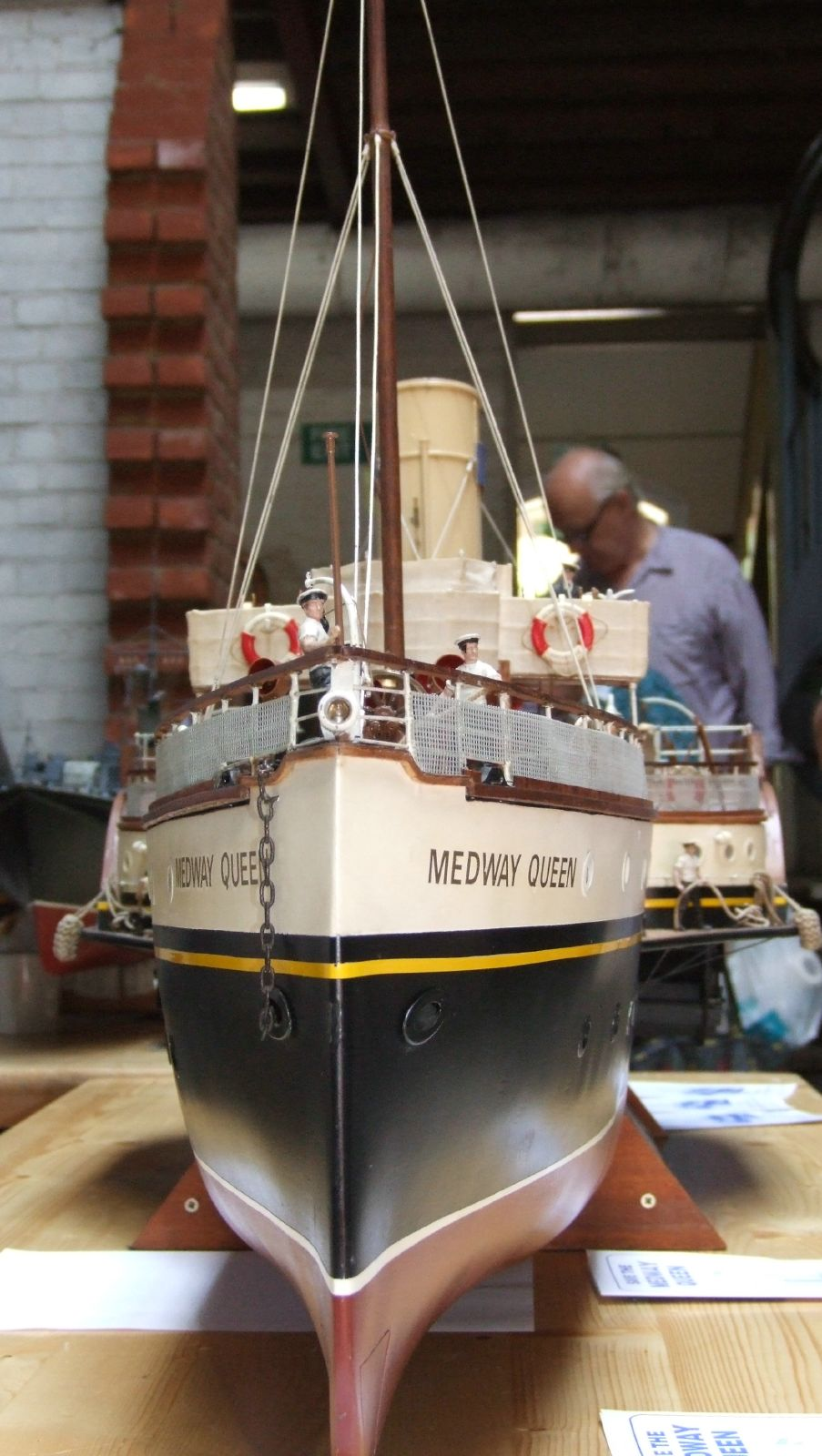 The PS Medway Queen. A fine model on display at Kew Bridge engines recent "Trains and Boats" exhibition.